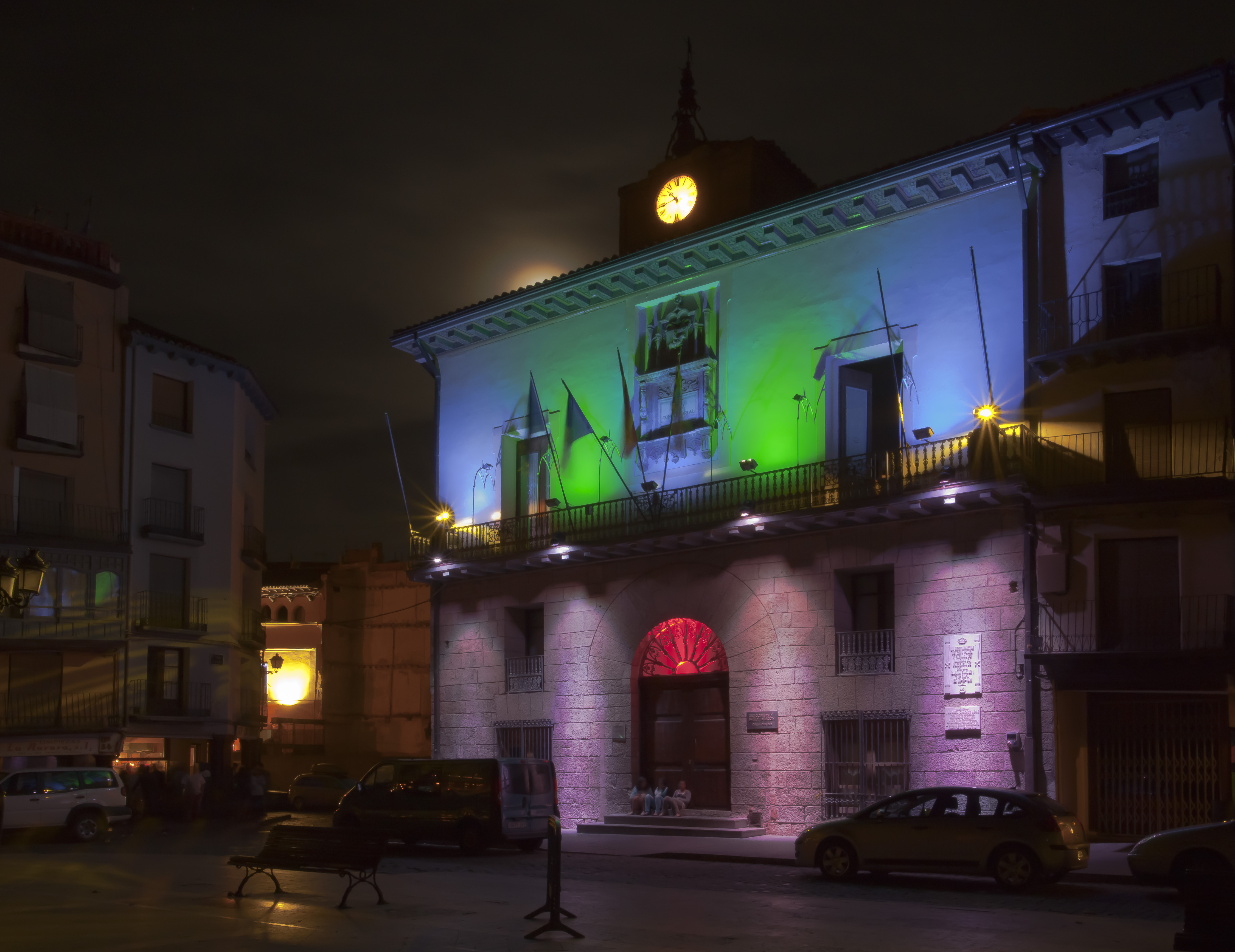 Old town hall, Calatayud, Spain.